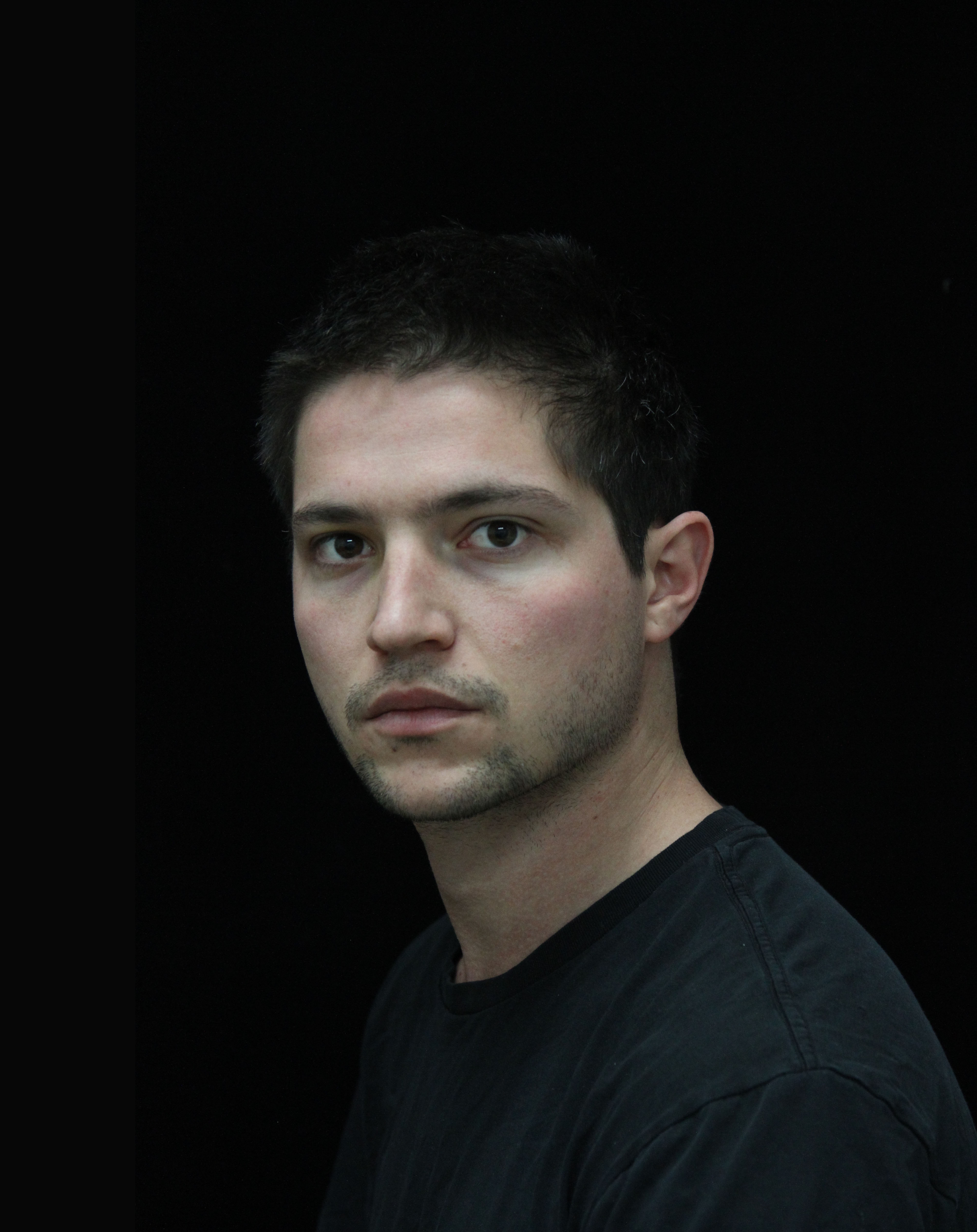 2017 photograph of Thomas McDonell